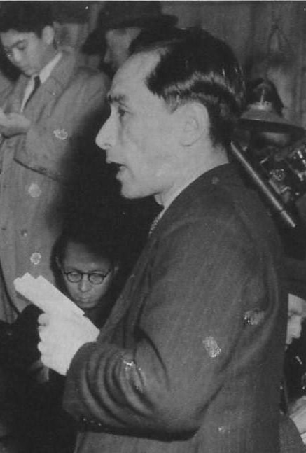 Ritsu Ito, Japanese Communist Party Politburo member.